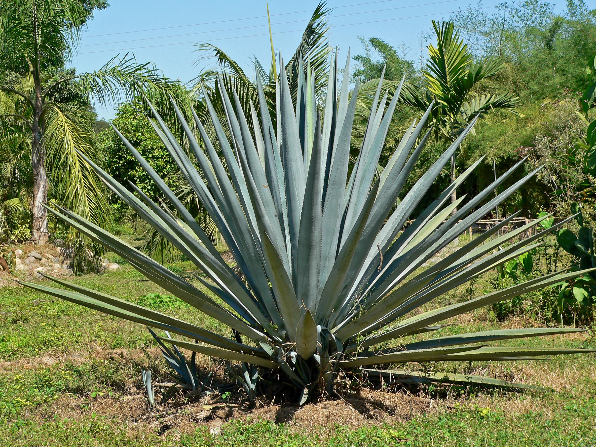 Photo of Agave tequilana t at Dona Engracia hacienda, Jalisco, Mexico